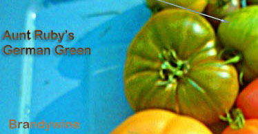 Crop of the Aunt Ruby's German Green tomato from my larger pic of heirloom tomatoes.